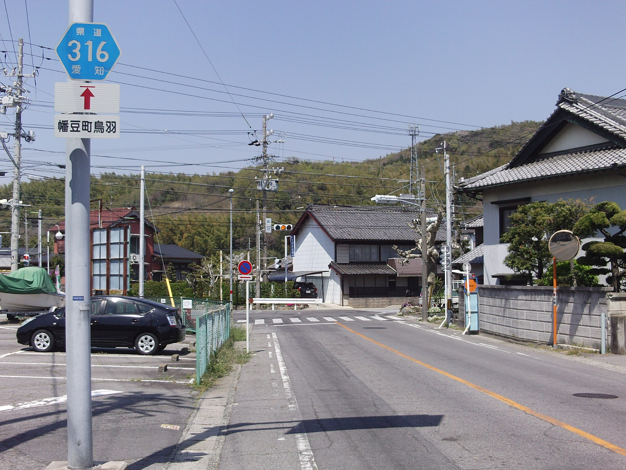 Aichi prefectural road No.316 in Tobacho, Nishio, Aichi.